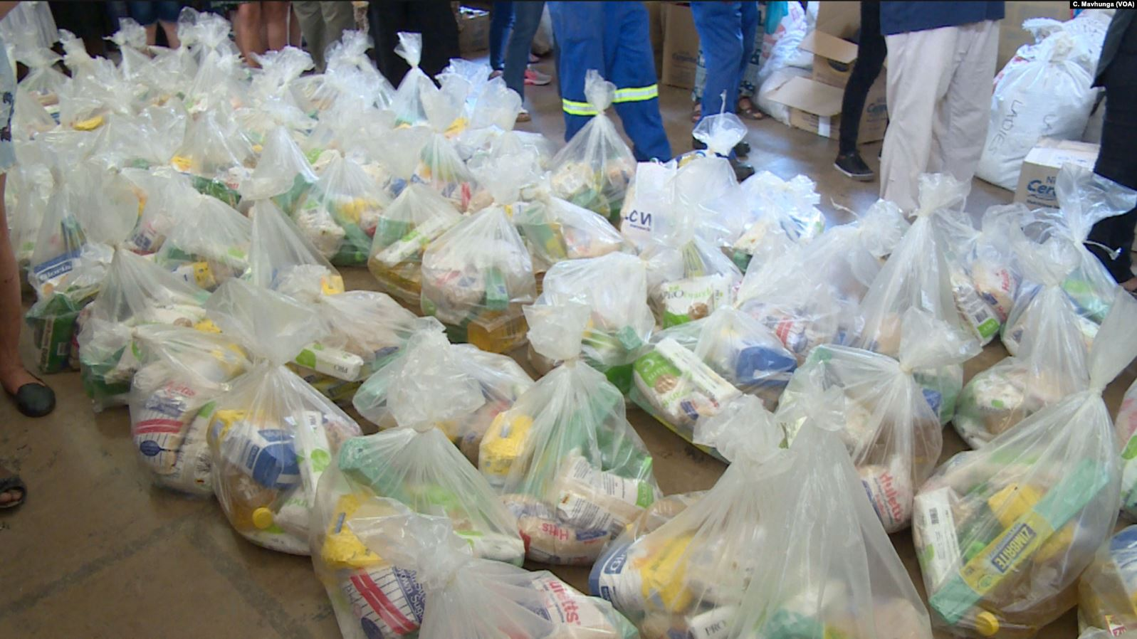 Volunteers in Harare arrange donated items destined for places affected by Cyclone Idai in Zimbabwe, March 19, 2019.